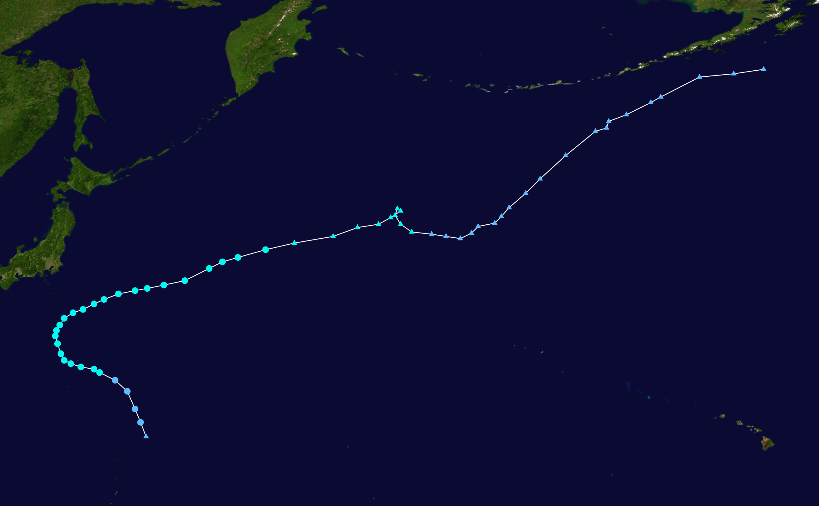 Track map of Tropical Storm Molave of the 2015 Pacific typhoon season. The points show the location of the storm at 6-hour intervals. The colour represents the storm's maximum sustained wind speeds as classified in the Saffir–Simpson scale (see below), and the shape of the data points represent the nature of the storm, according to the legend below. Saffir–Simpson scale Tropical depression≤38 mph≤62 km/h Category 3111–129 mph178–208 km/h Tropical storm39–73 mph63–118 km/h Category 4130–156 mph209–251 km/h Category 174–95 mph119–153 km/h Category 5≥157 mph≥252 km/h Category 296–110 mph154–177 km/h Unknown Storm type Tropical cyclone Subtropical cyclone Extratropical cyclone / Remnant low / Tropical disturbance / Monsoon depression